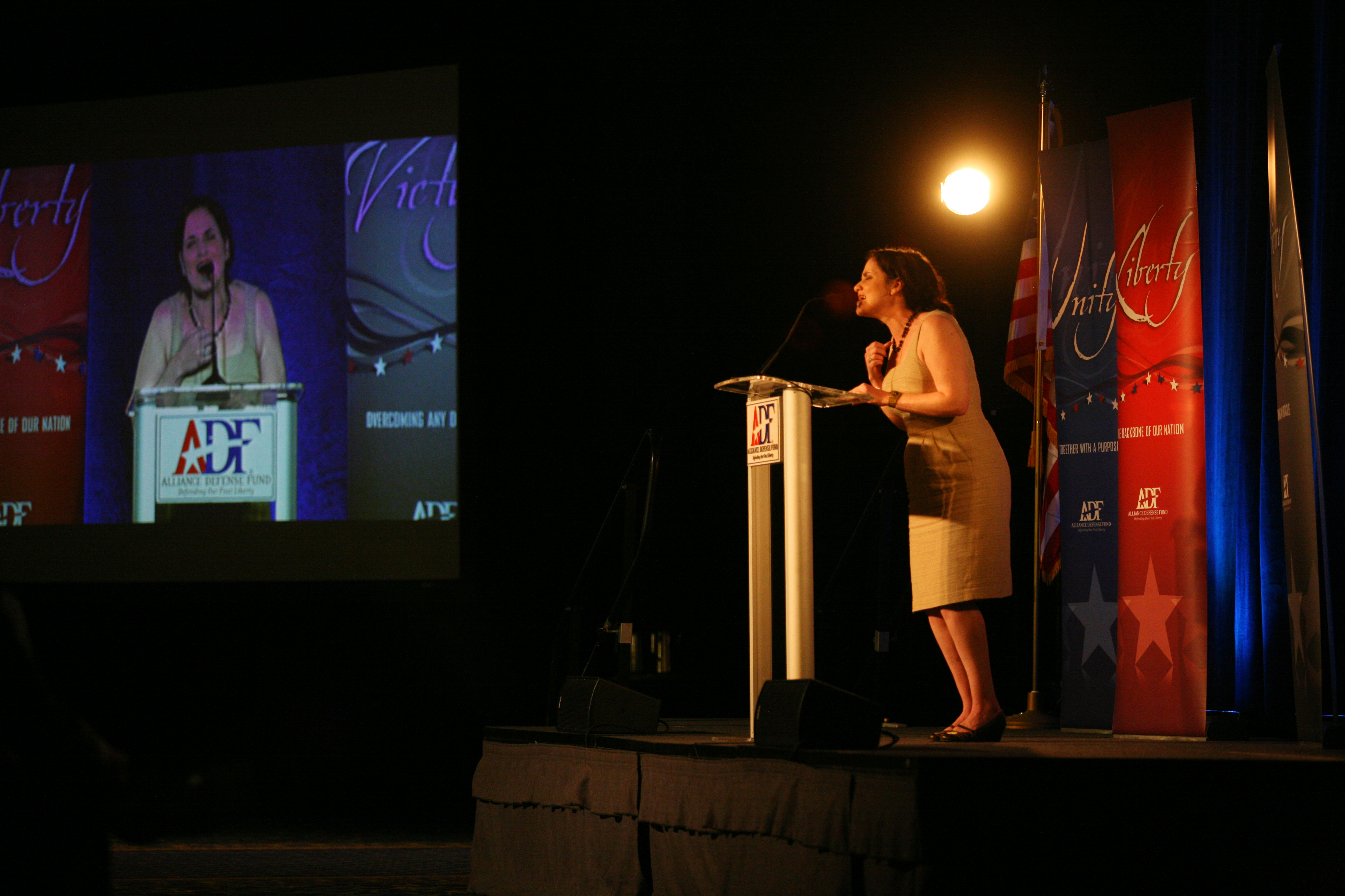 Gianna Jessen, whose story inspired the movie October Baby, as a featured speaker by the Alliance Defense Fund Banquet at Meadowview in Kingsport.